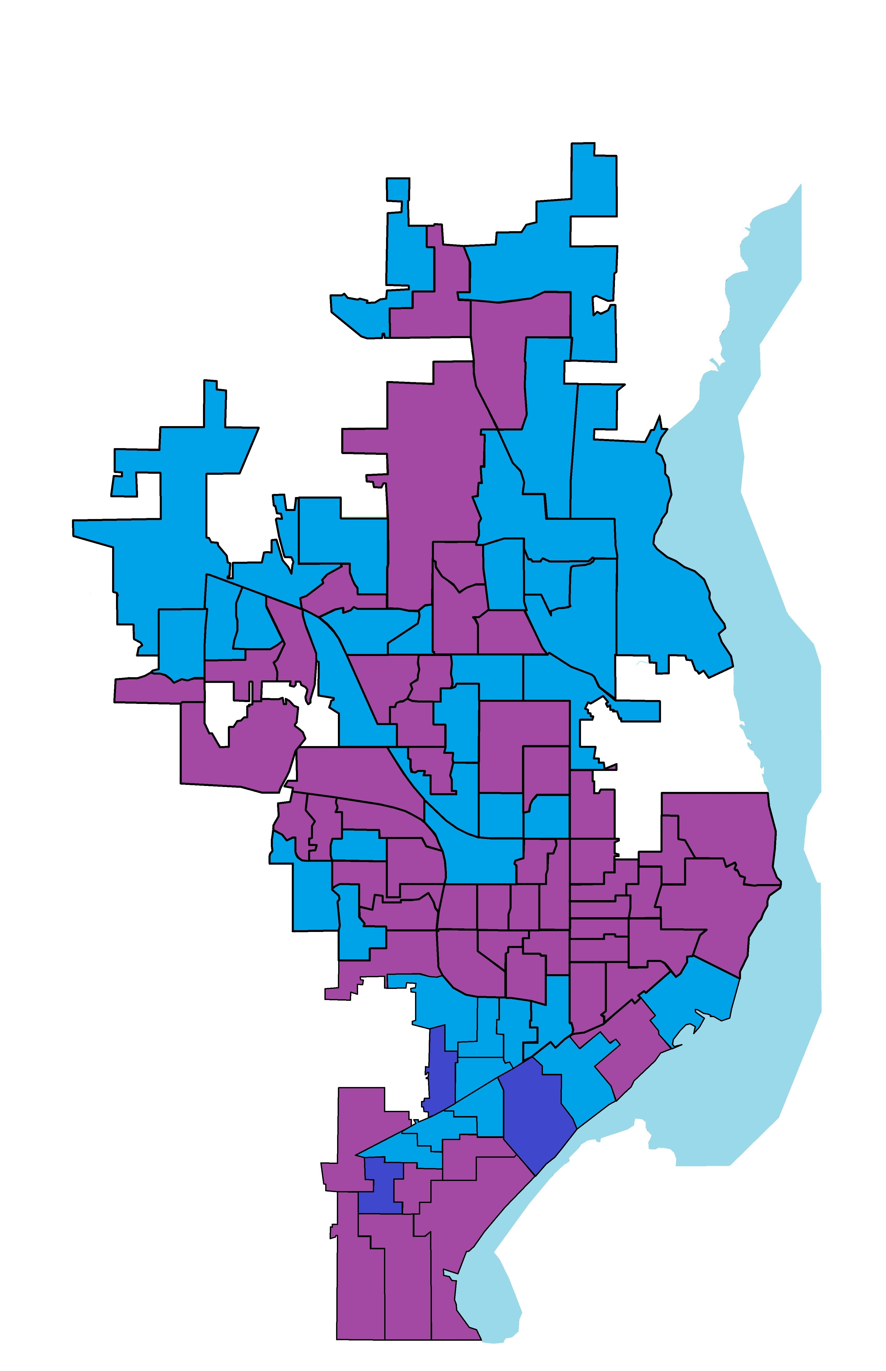 Purple denotes a precinct won by Jim Ardis, Light Blue by David P. Ransburg, and Dark Blue where the two received the same amount of votes.